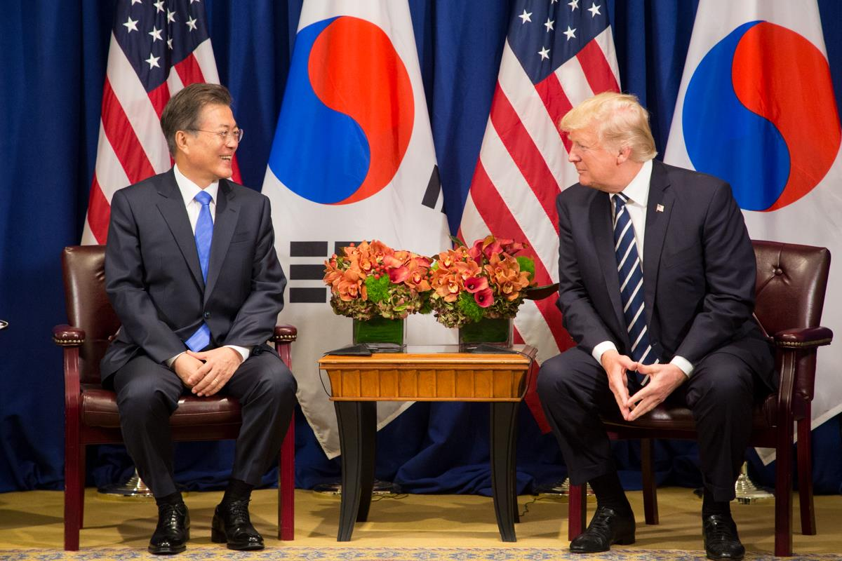 President Donald J. Trump and President Moon Jae-in of the Republic of Korea at the United Nations General Assembly (Official White House Photo by Shealah Craighead)